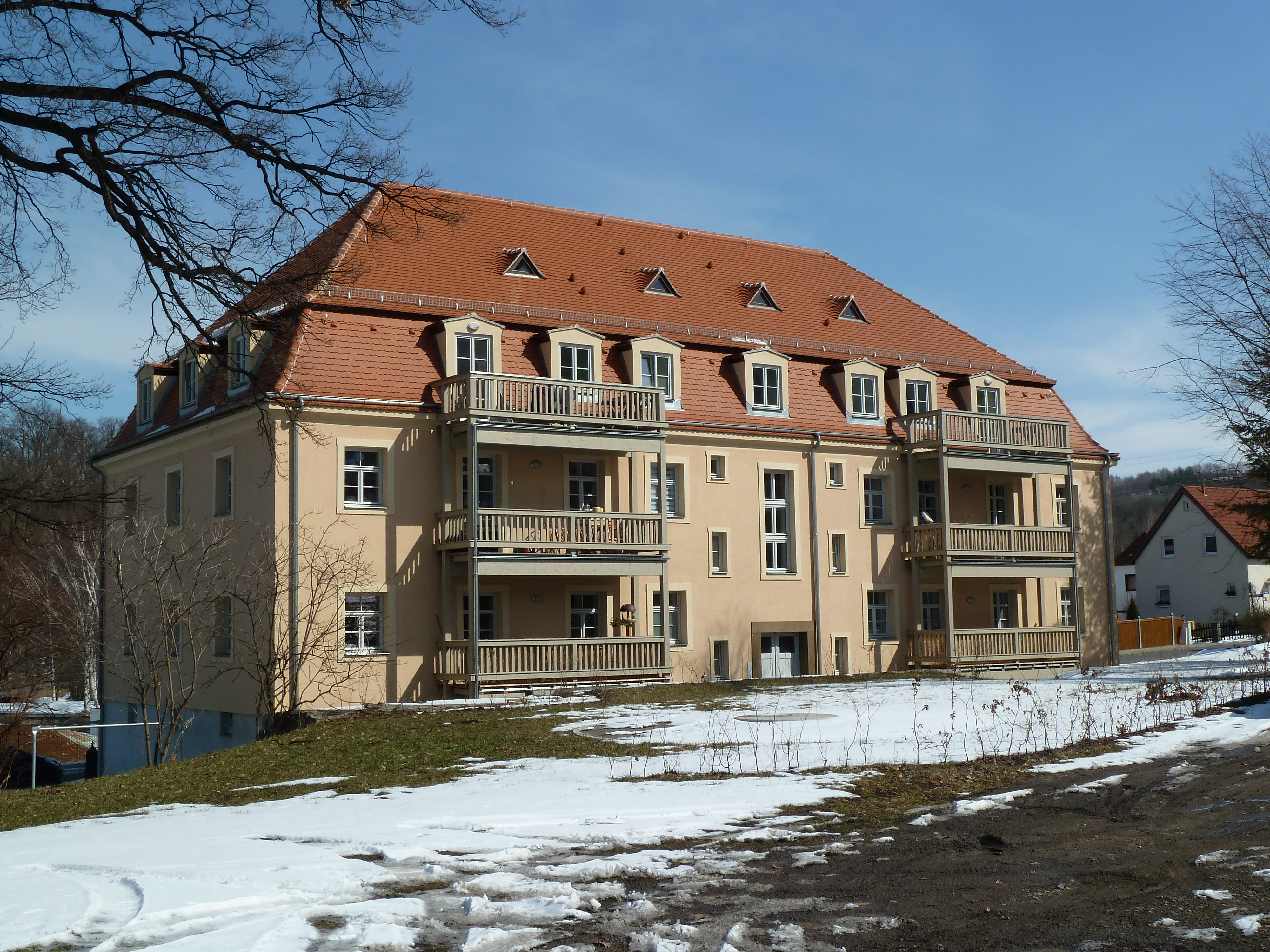 Huthaus, depot and administration building of the Burgk colliery; 1709–1930; 1947–1953; apartment-house since 2011.